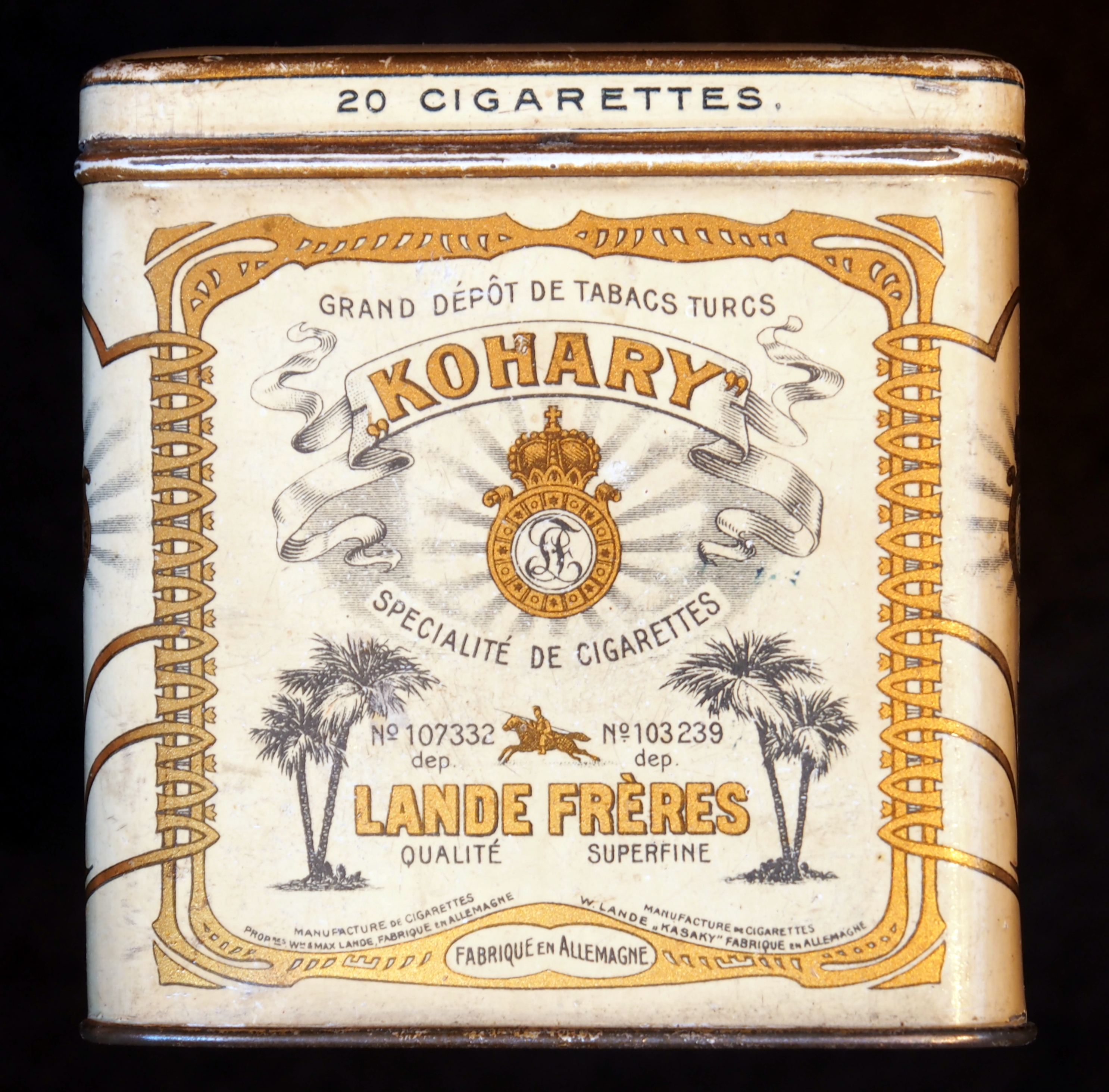 Very old product that is not produced and not sold any more. Note that some tins may look the same, but when looked for carefully there are some slight differences! For more info see tincollectors.nl or